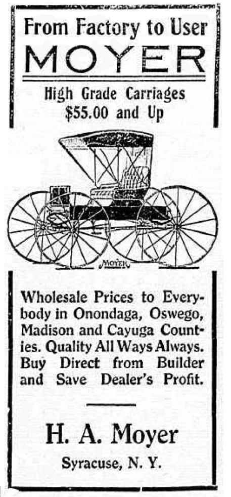 A Moyer carriage advertisement